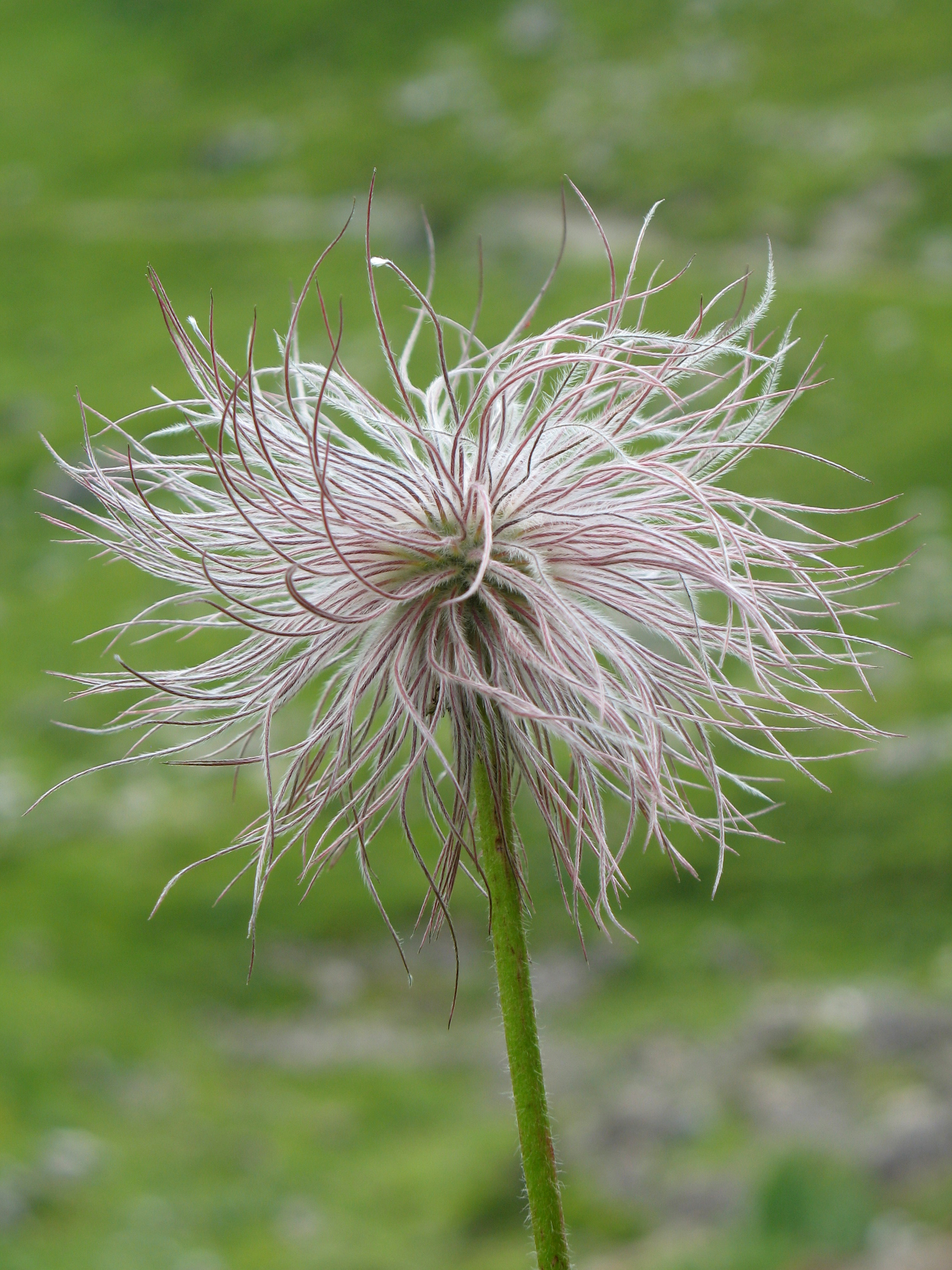 An Alpine Pasqueflower (Pulsatilla alpina ssp. alpina) in July at an altitude of 2000m above sea level at the Alpine Garden at Schynige Platte, Switzerland. The achenes of the fruits are long and hairy in order to slow and trap the wind, making the surrounding air warmer. This helps to allow the plants to survive in Alpine environments. Being high in the air, the achenes can be dispersed by the wind.[1] ↑